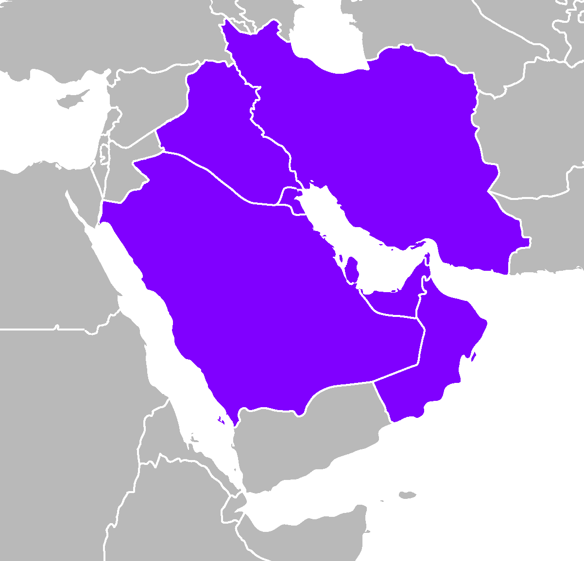 the Persian Gulf States